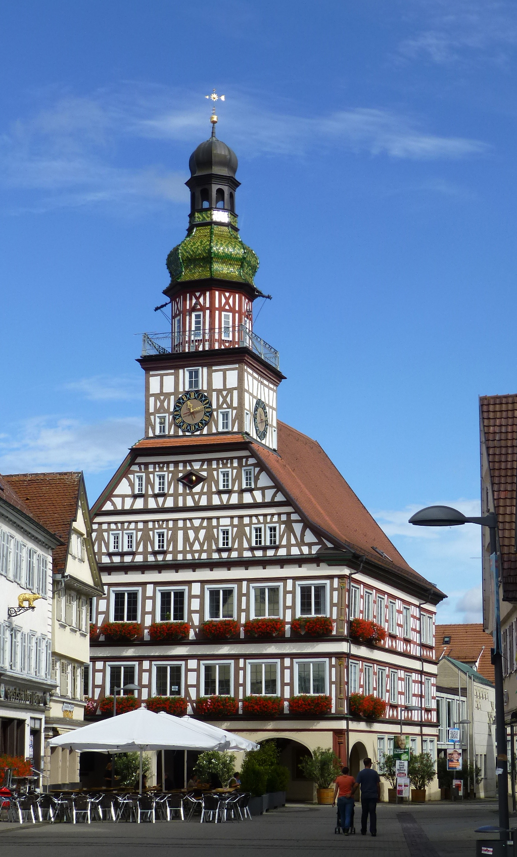 Town hall and astronomic clock, framed house, Kirchheim unter Teck, Wurttemberg.